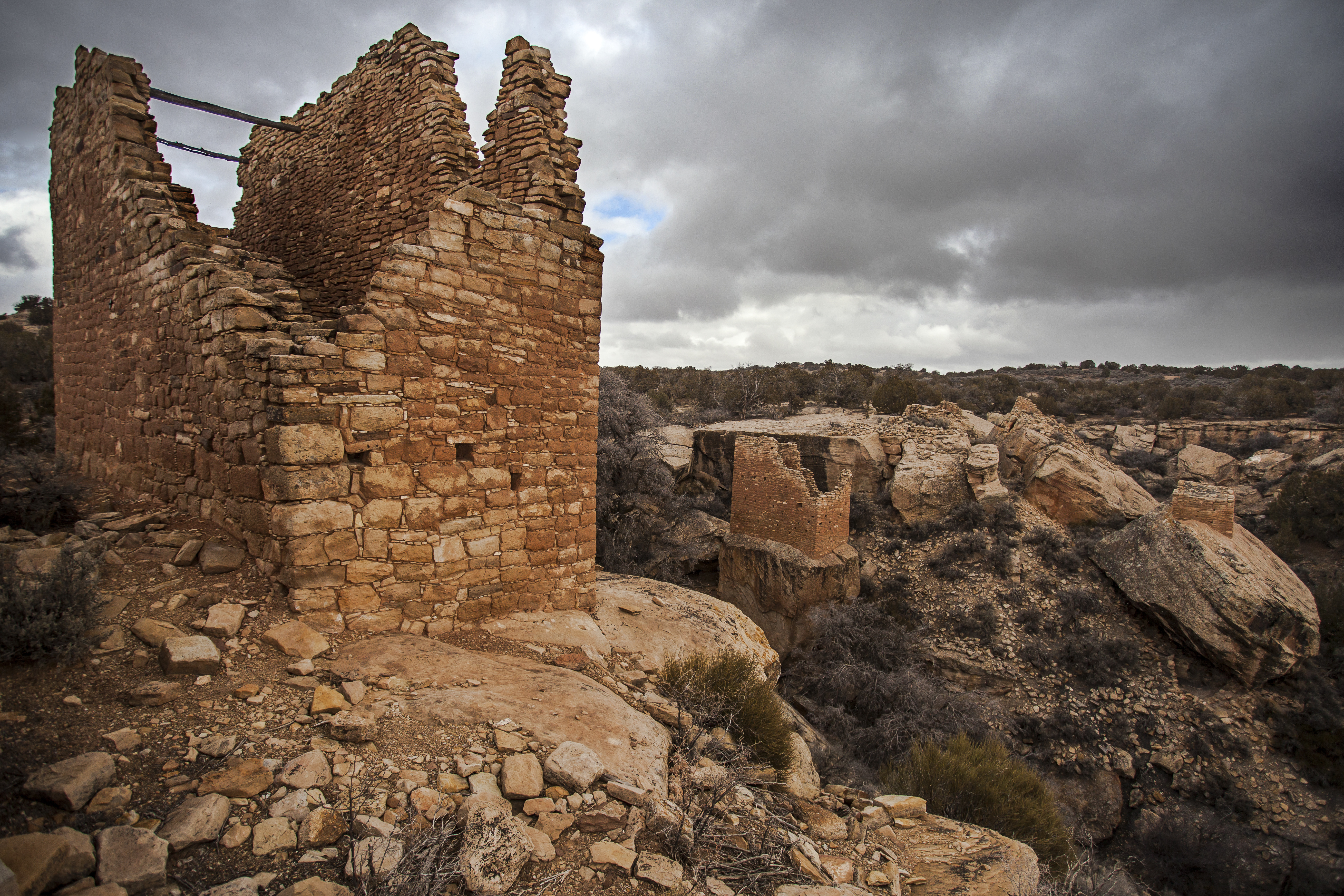 (NPS photo by Jacob W. Frank)